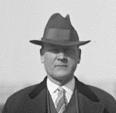 Charles Cyrus Kearns, crop of head from file:Charles Cyrus Kearns 1916.jpg